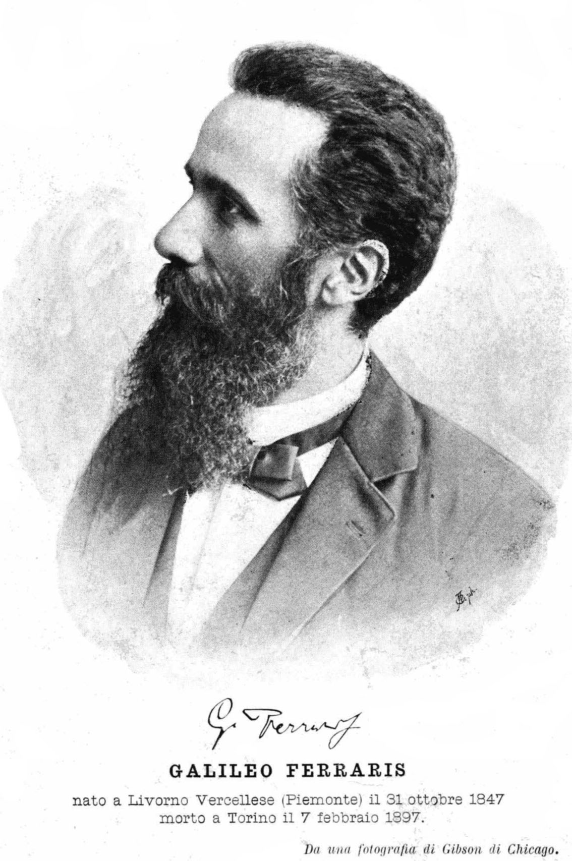 Galileo Ferraris, Italian physicist, electrical engineer